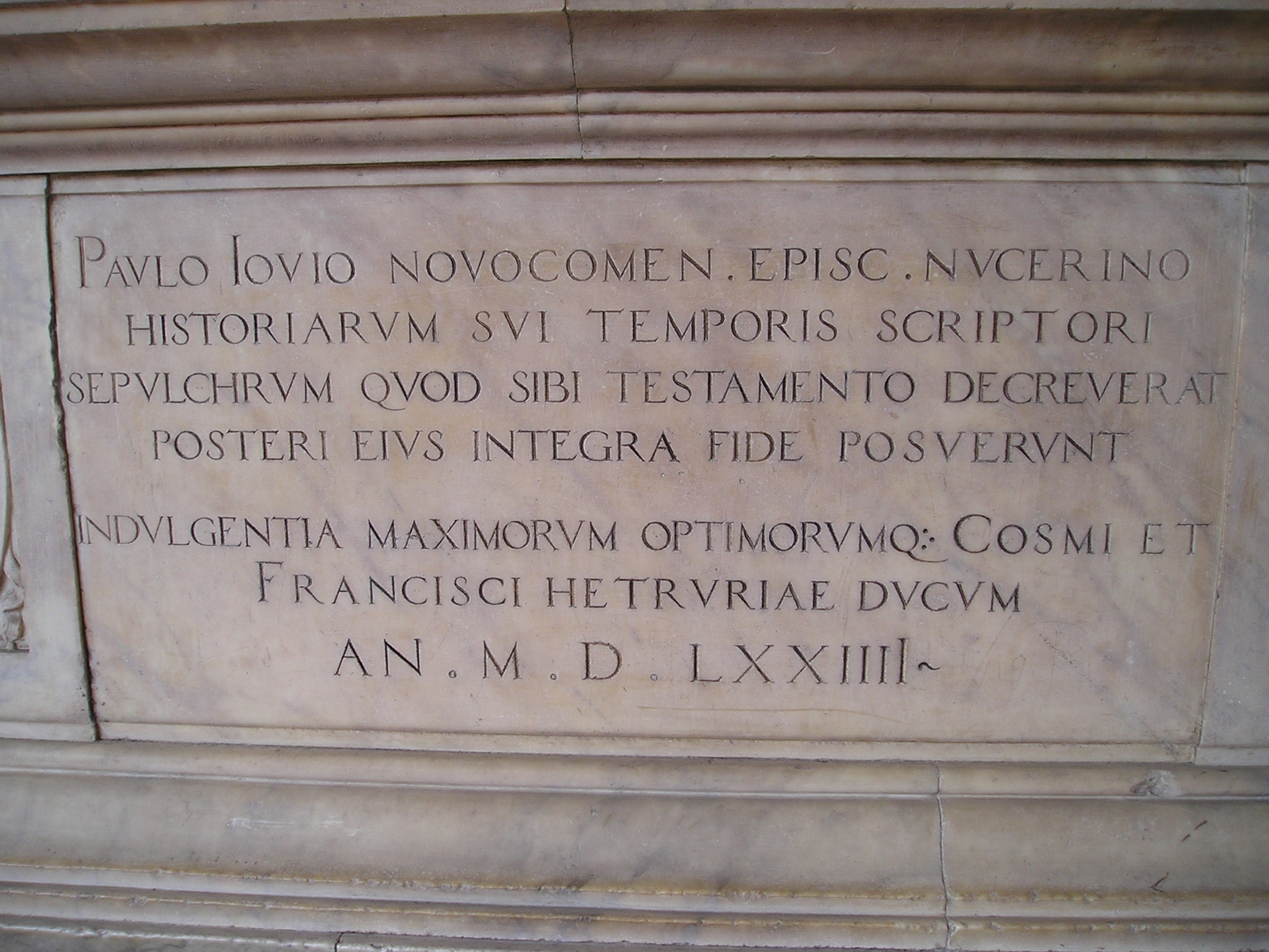 Inscription at the base of Paulus Giovius statue in Laurenziana library in Florence